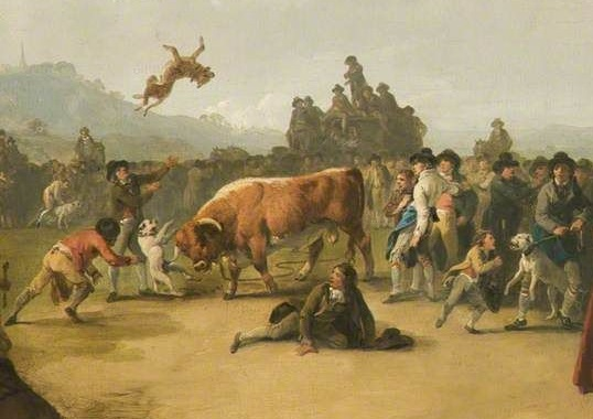 Detail (fragment) from the paiting Bull Baiting by Julius Caesar Ibbetson, Tabley House Collection, UK. A bull-baiting scene with old english bulldogs.